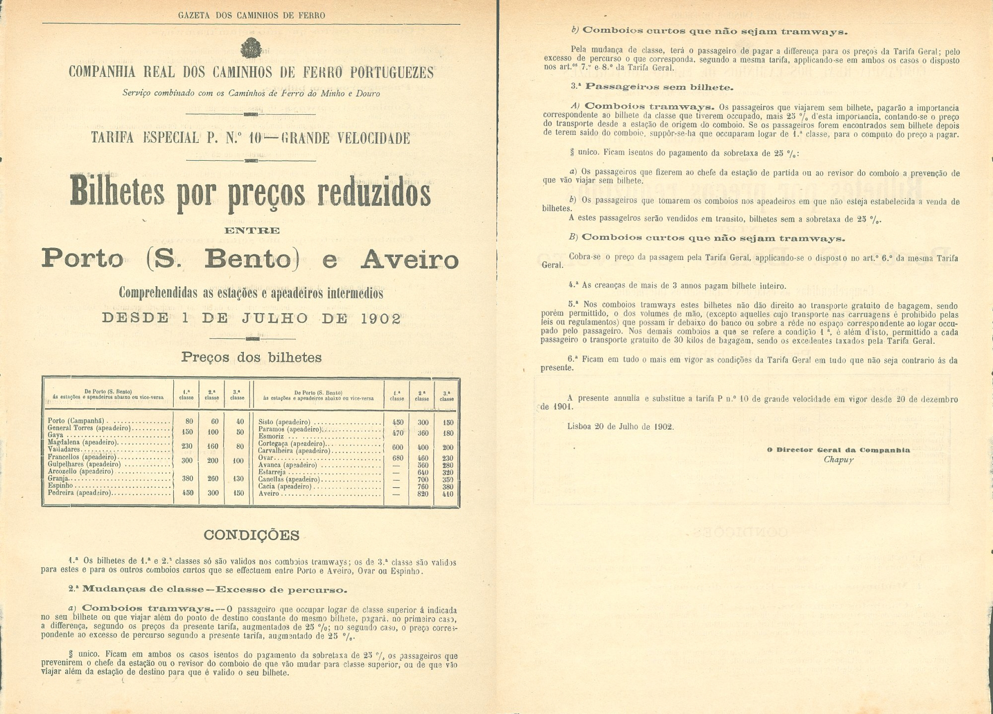 Advertisement of the Companhia Real dos Caminhos de Ferro Portugueses (Royal Company of the Portuguese Railways), showing the special tariff n.º 10, for tickets at reduced prices between the railway stations of Porto - São Bento and Aveiro. This image was published on the Gazeta dos Caminhos de Ferro magazine no. 349, of the 1st July 1902, and scanned by the Hemeroteca Municipal de Lisboa.